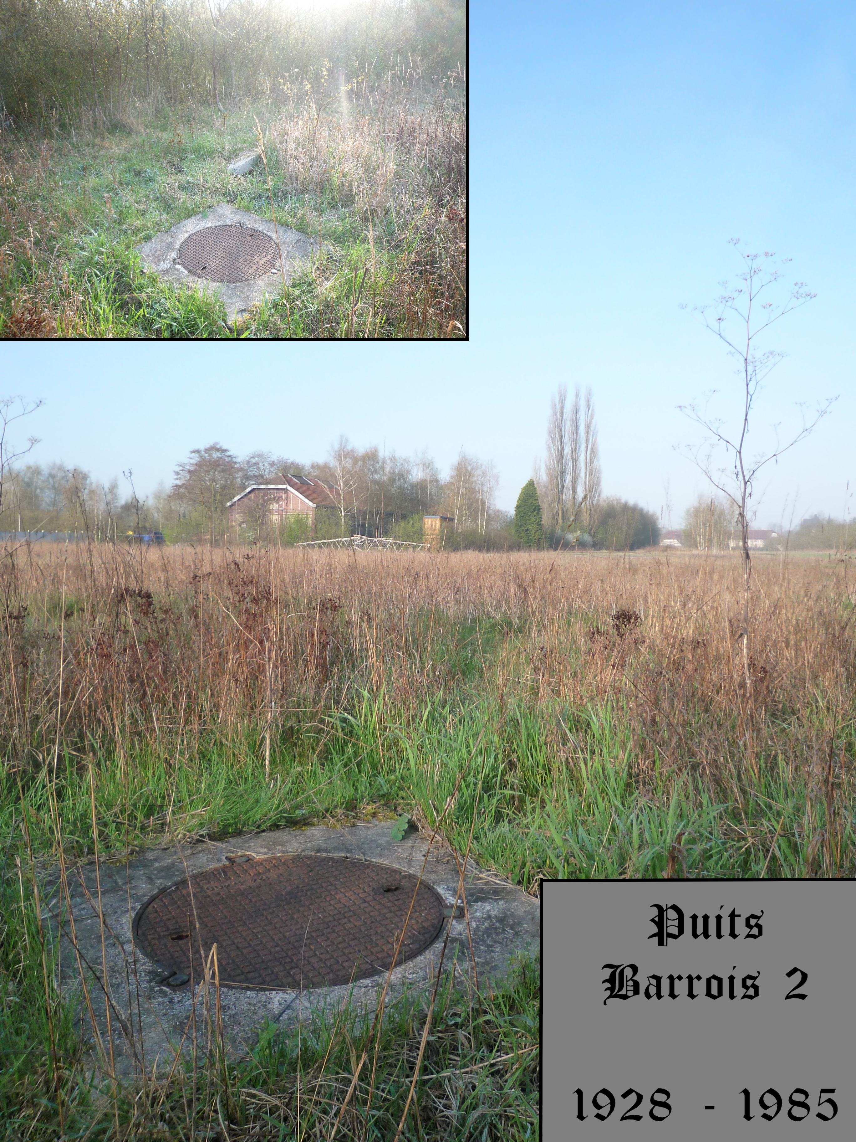 Pit Barrois #2 at Pecquencourt, France.